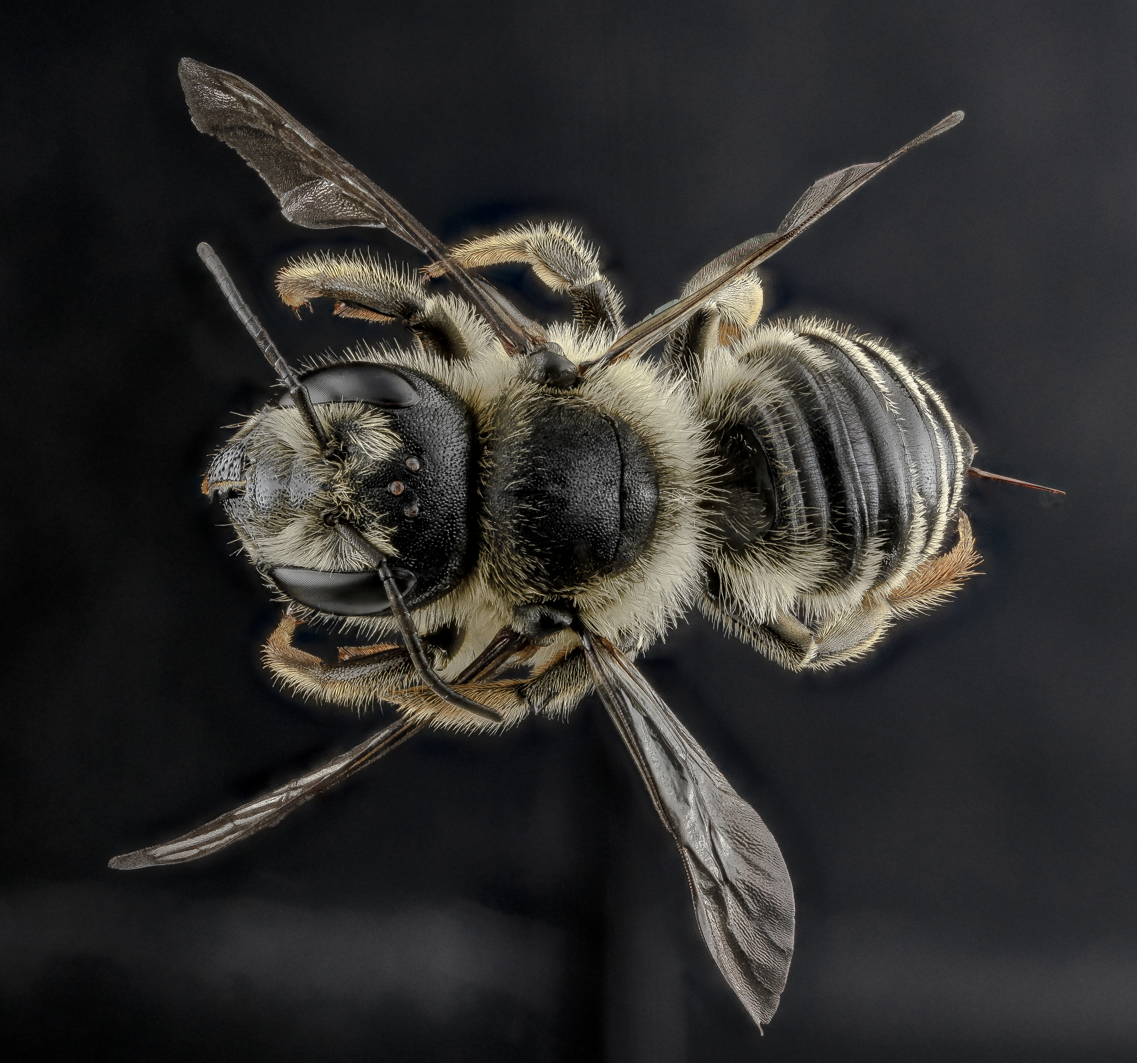 Bee Megachile inermis